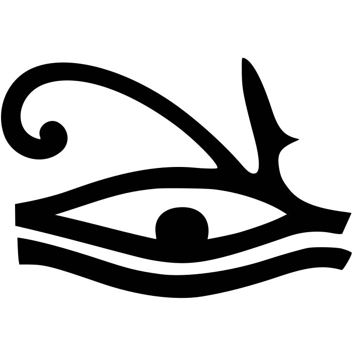 Eye of Horus